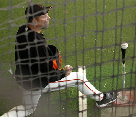 Joe Lefebvre with the San Francisco Giants during spring training in Arizona in 2005